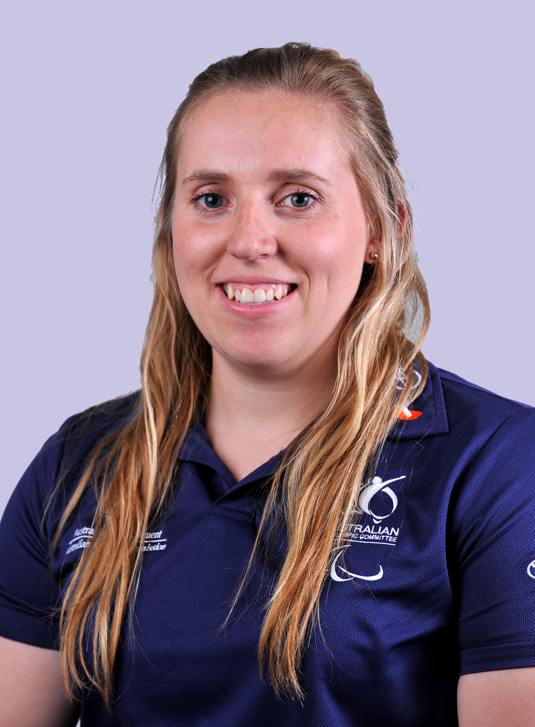 Portrait of Australian wheelchair basketballer Shelley Chaplin, 2012 Australian Paralympic (shadow) Team athlete